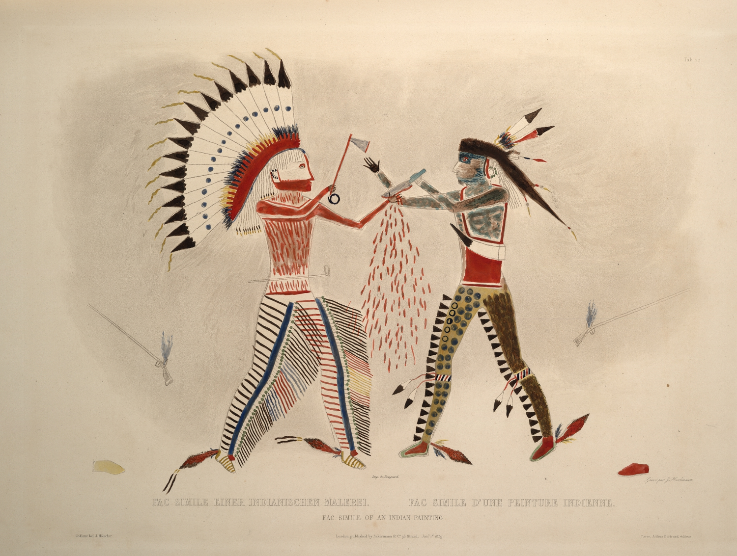 Author: aquatint by Karl Bodmer from the book "Maximilian, Prince of Wied’s Travels in the Interior of North America, during the years 1832–1834" by Prince Maximilian of Wied (Publisher: Ackermann & Co., 1839) Source URL